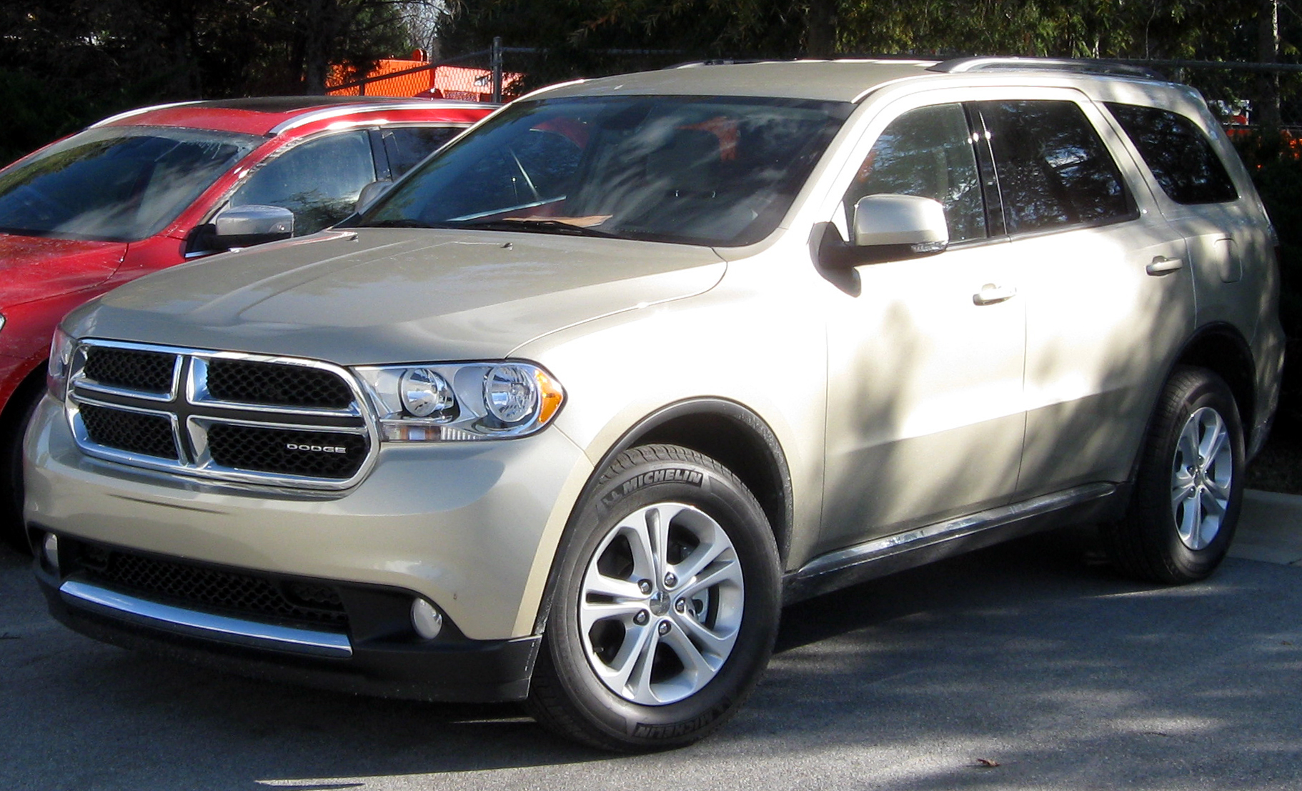 2011 Dodge Durango photographed in Upper Marlboro, Maryland, USA.